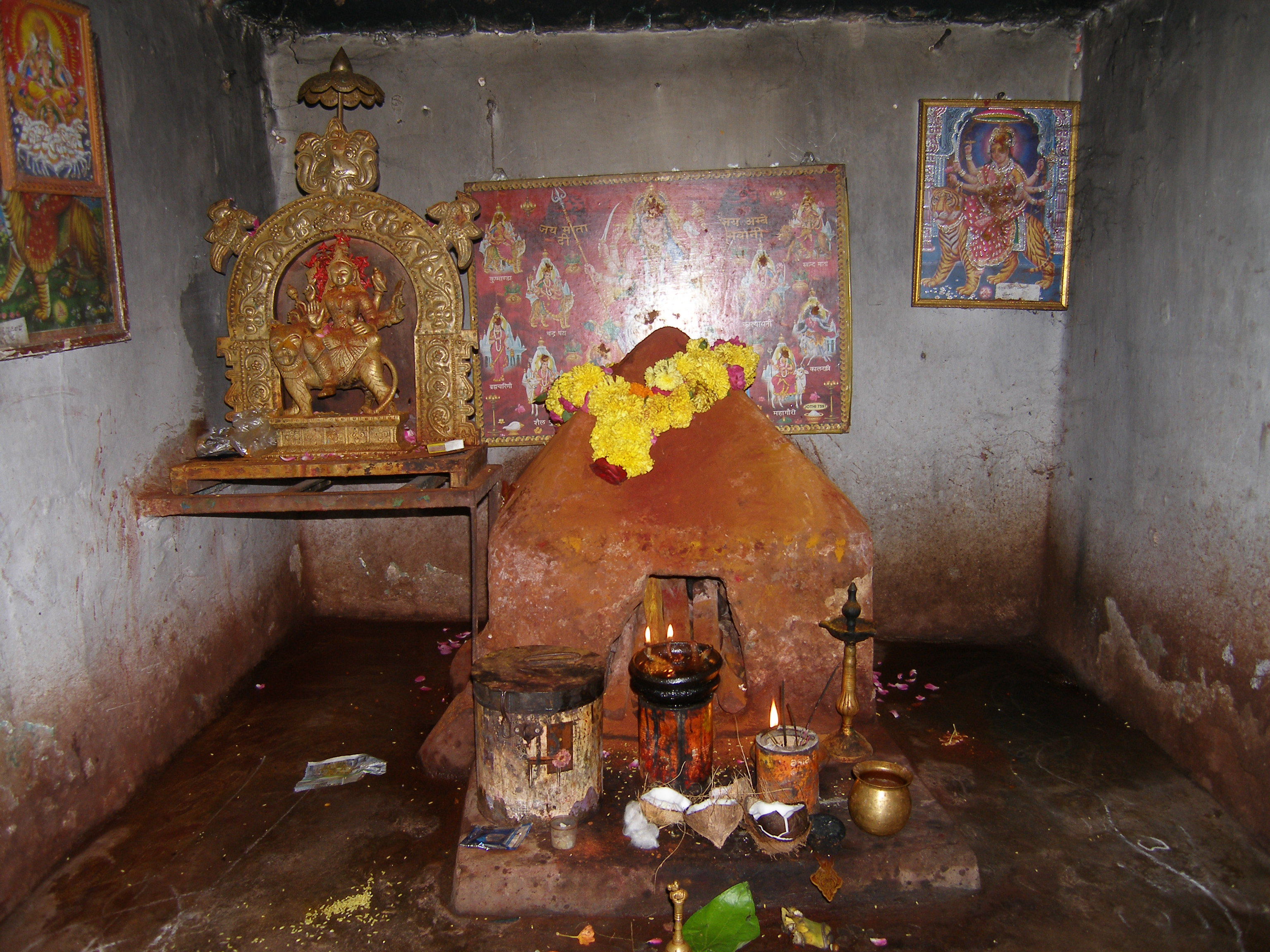 This is photograph of Gramadevata temple at Vakadavalasa village in Vizianagaram district taken by me.Rajasekhar1961 (talk) 06:53, 21 October 2013 (UTC)